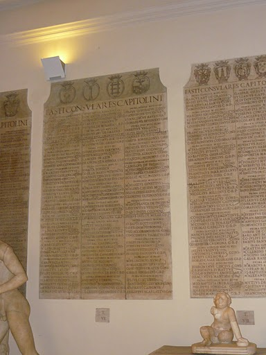 Fasti Capitolini, musei Capitolini